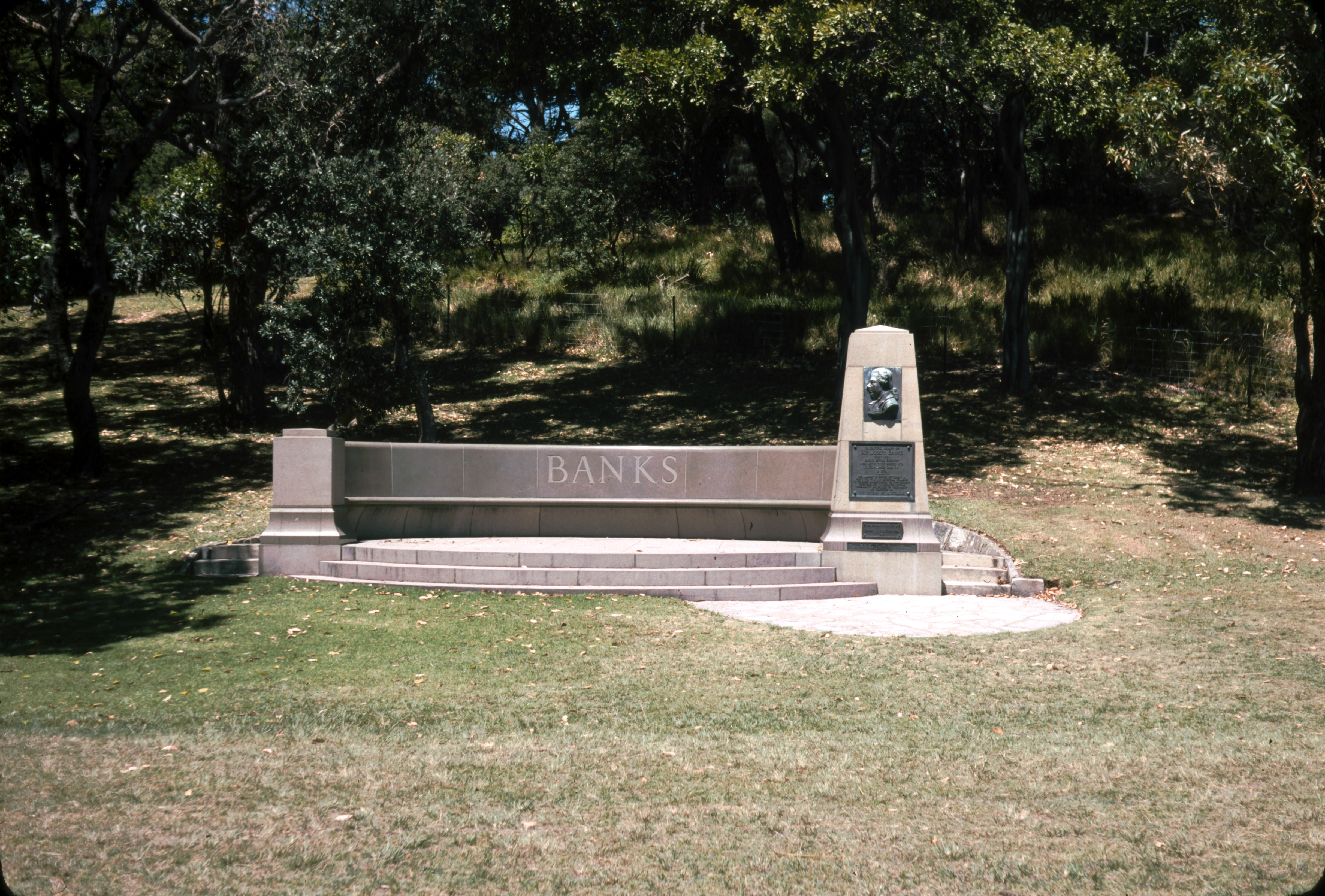 Banks Memorial in Sydney